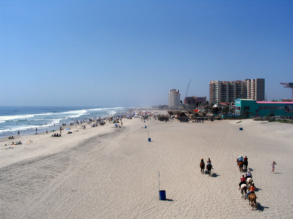 Rosarito Beach in Baja California.